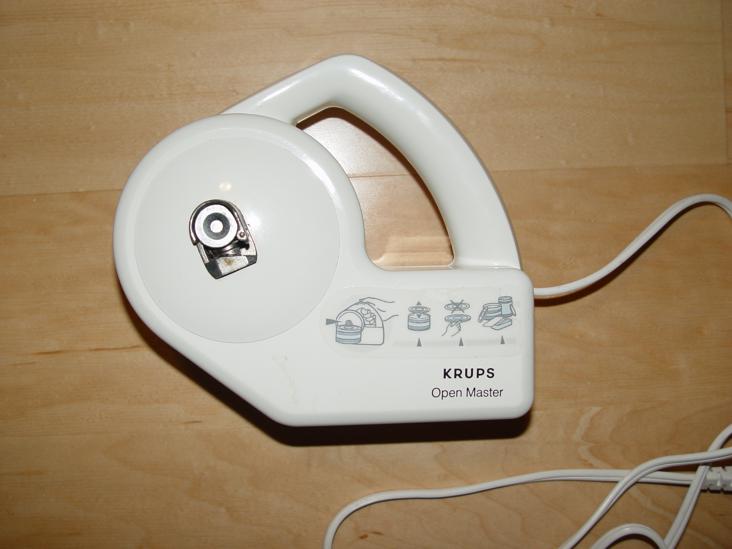 A Krups hand-held electric can opener.